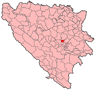 Location of Breza municipality in Bosnia and Herzegovina.